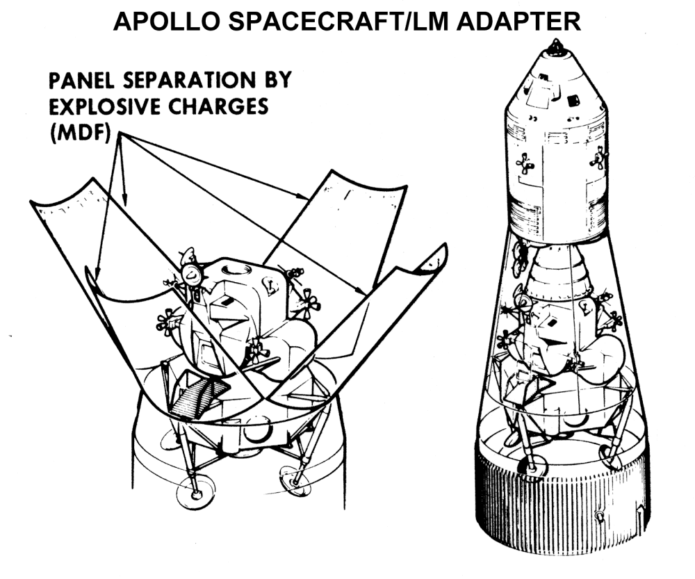 This diagram shows the Apollo Spacecraft/Lunar Module adapter panels in their closed position prior to launch, and also in the process of opening in orbit to allow the Command/Service Module to dock with the Lunar Module.